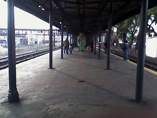 Liniers Train Station